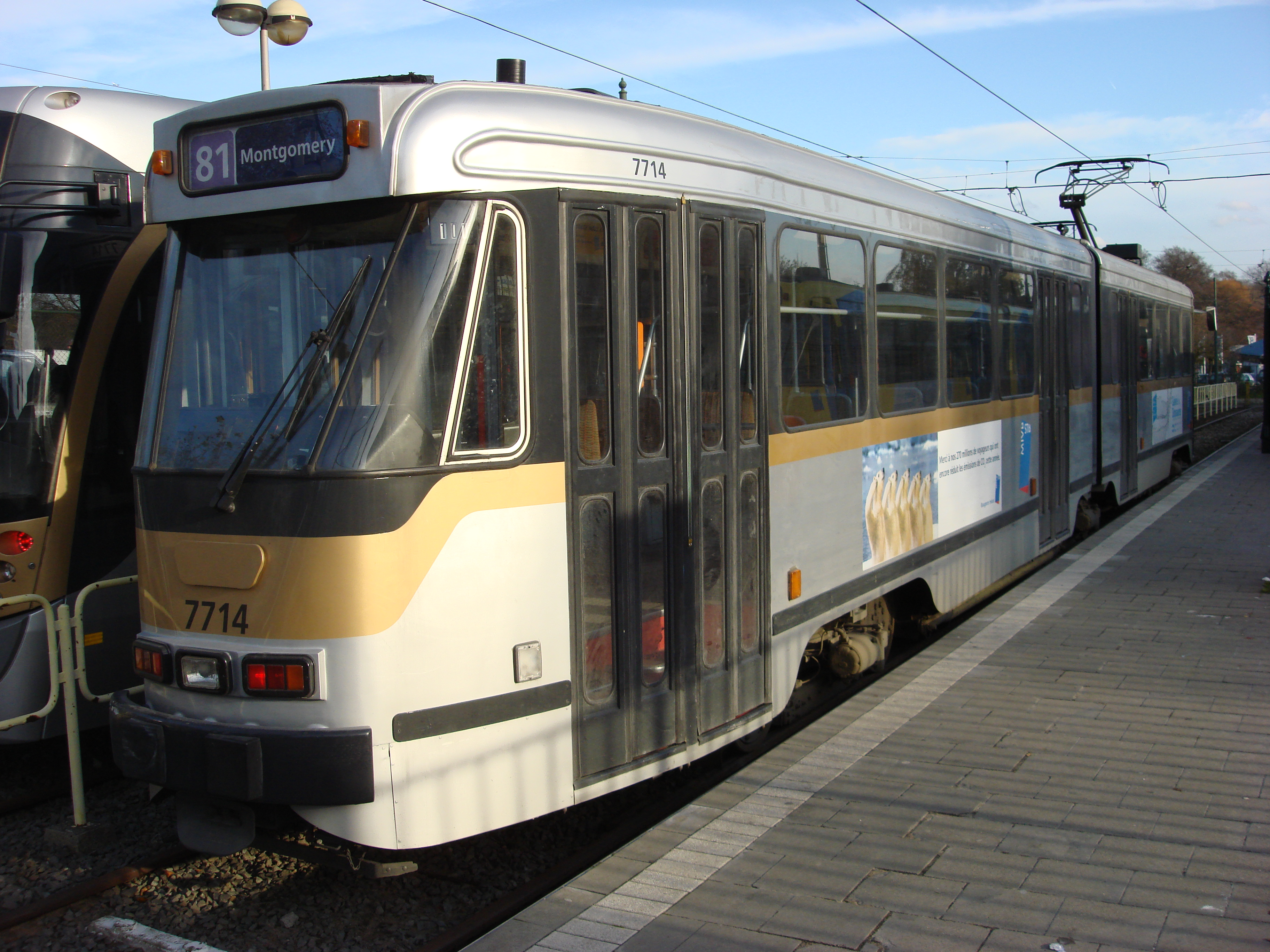 STIB-MIVB Tram number 7714 at Heysel